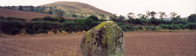 Bendor stone at the Battle of Homildon Hill